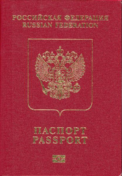 Russian external Passport